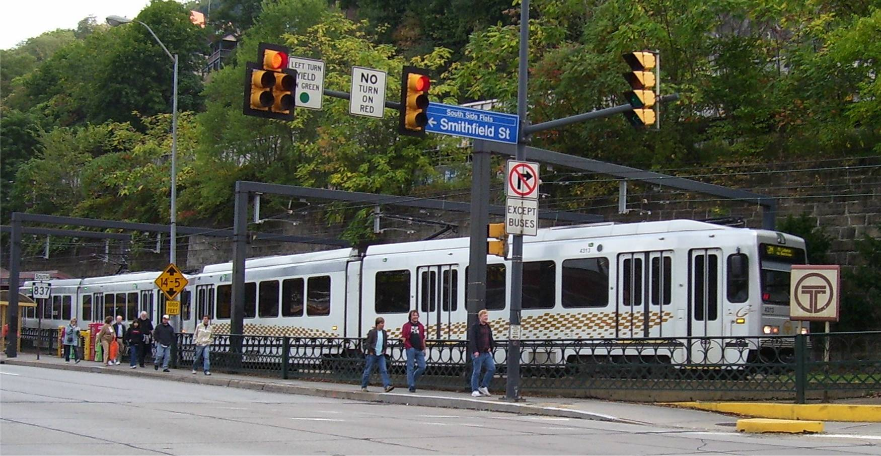 An outbound train on the Pittsburgh light rail system prepares to enter the Mt. Washington Transit Tunnel.